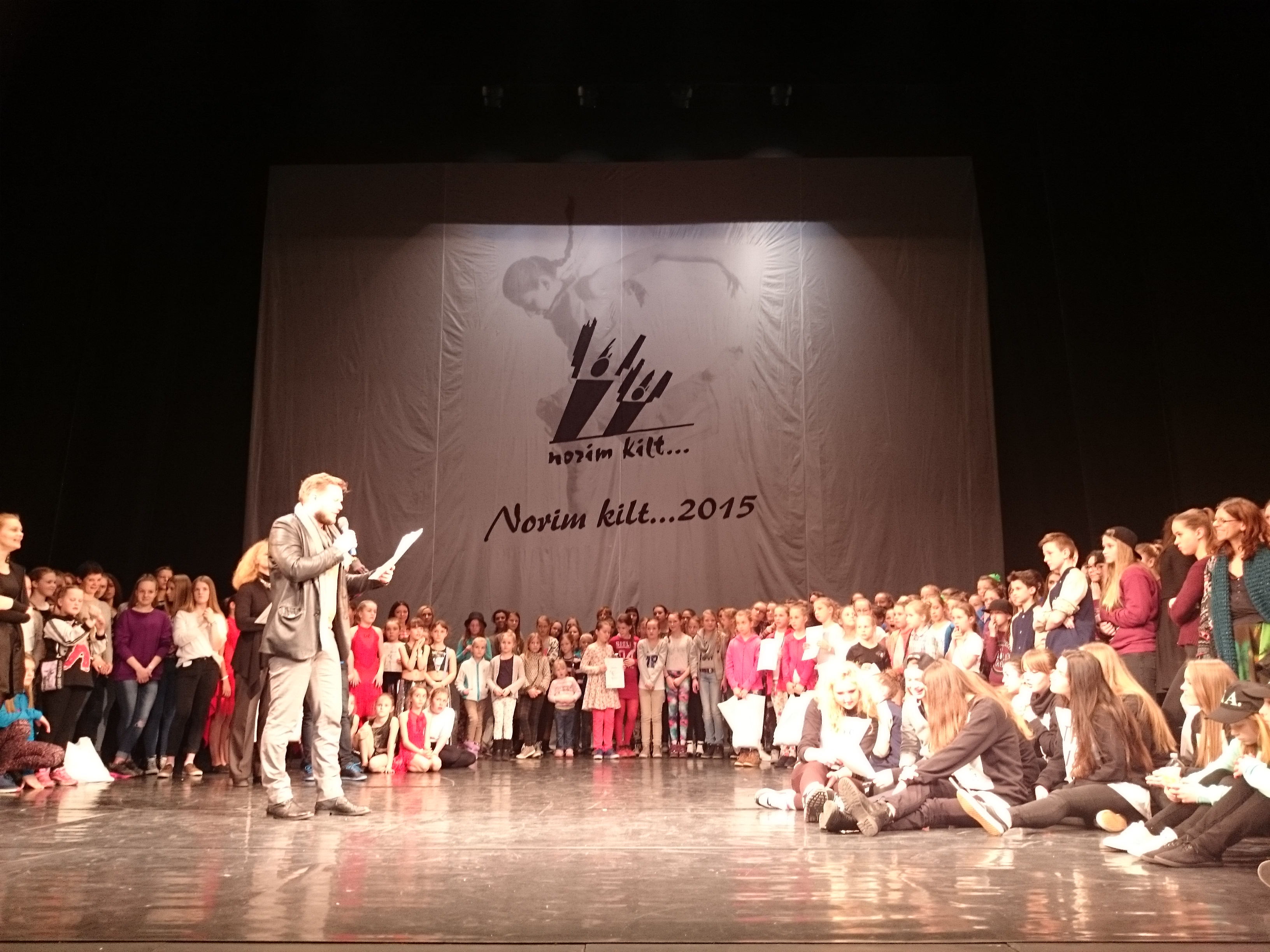 Norim kilt